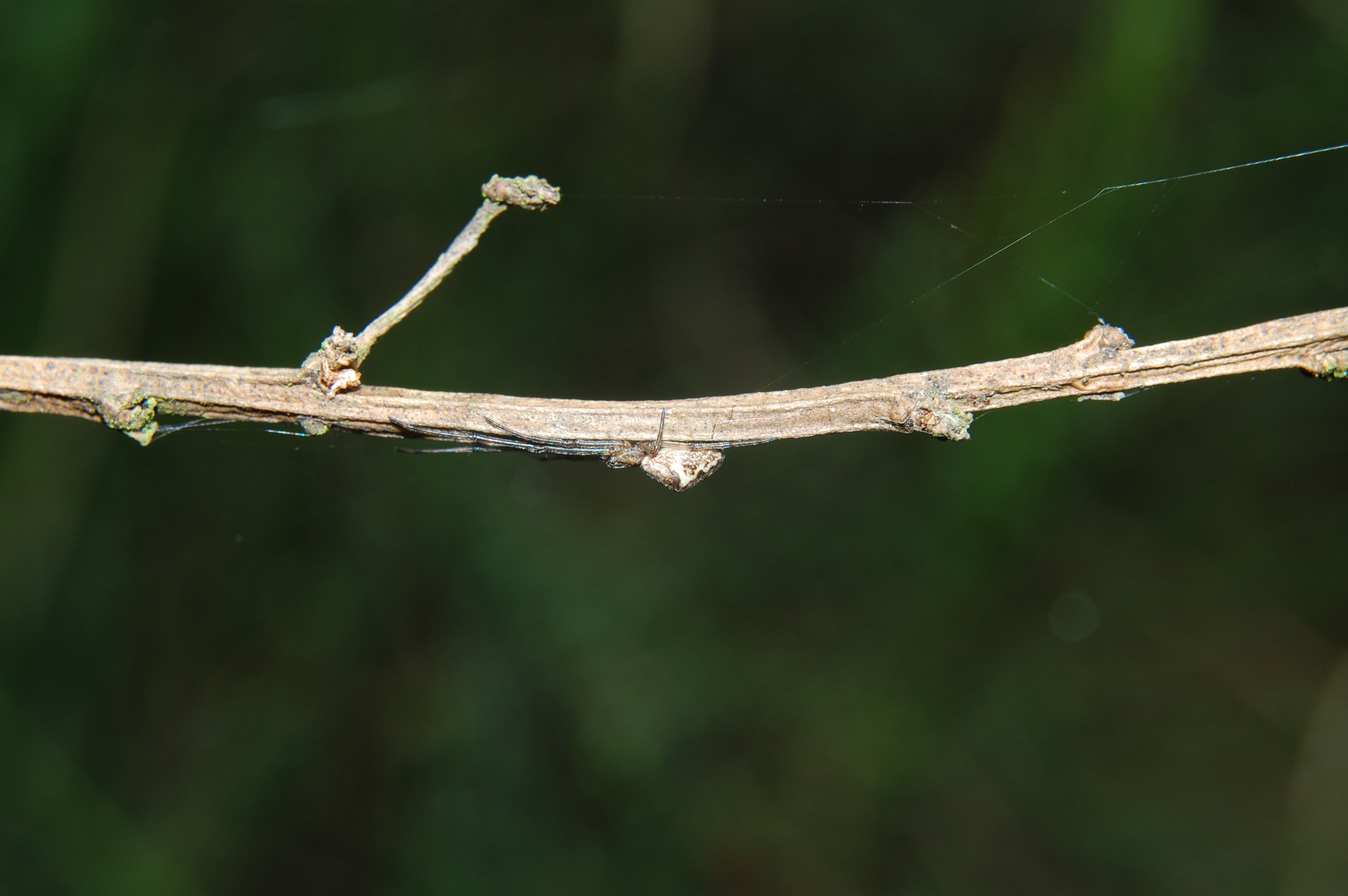 Tetragnatha obtusa on dry twig of Genista sp.